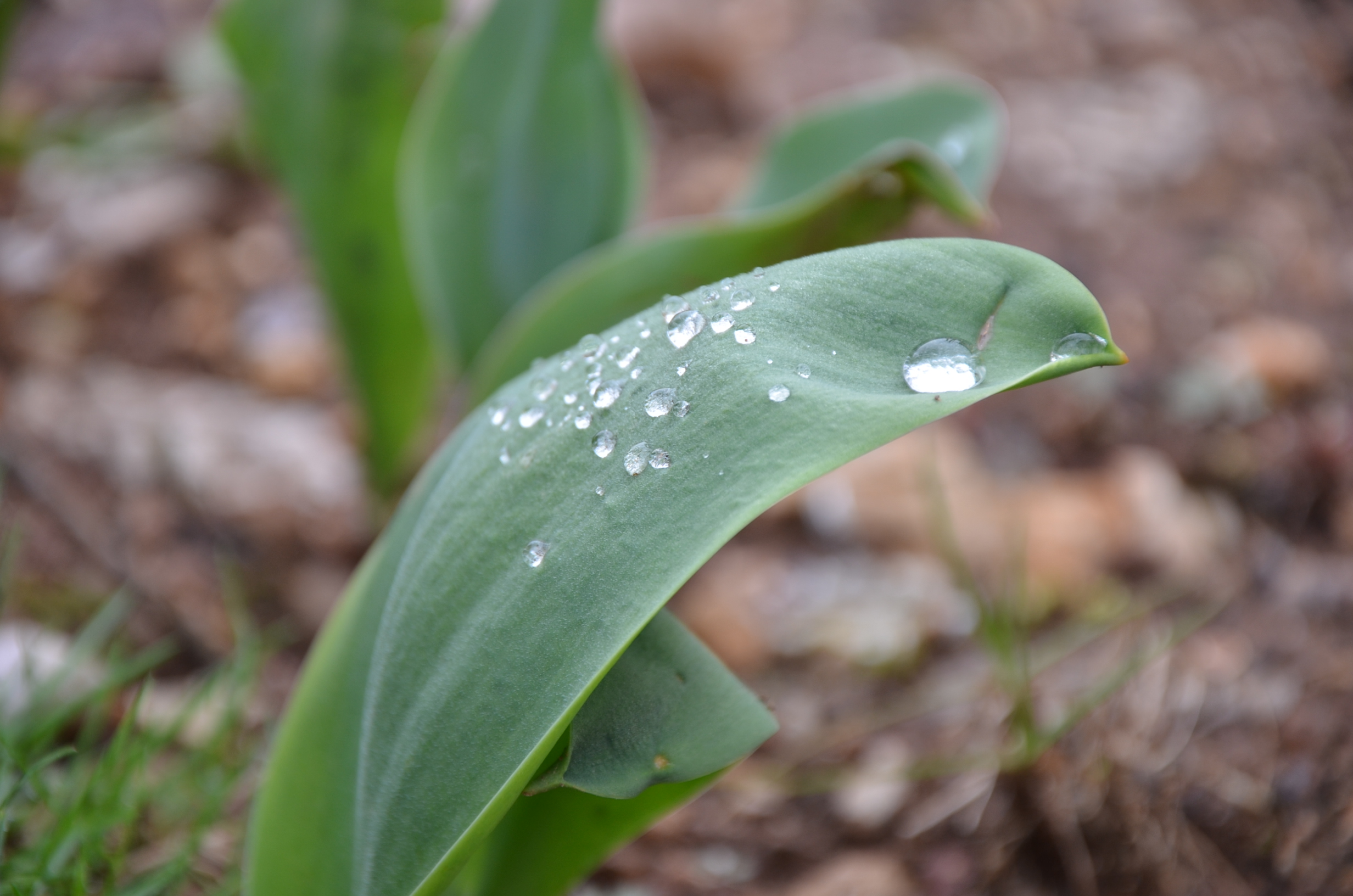 This is an example of a waterproof tulip leaf. It is called "the lotus effect" and it is due to the micro- and nanoscopic architecture on the surface of the leaf, which minimizes the drop's adhesion to that specific leaf and guarantees self-cleaning properties.